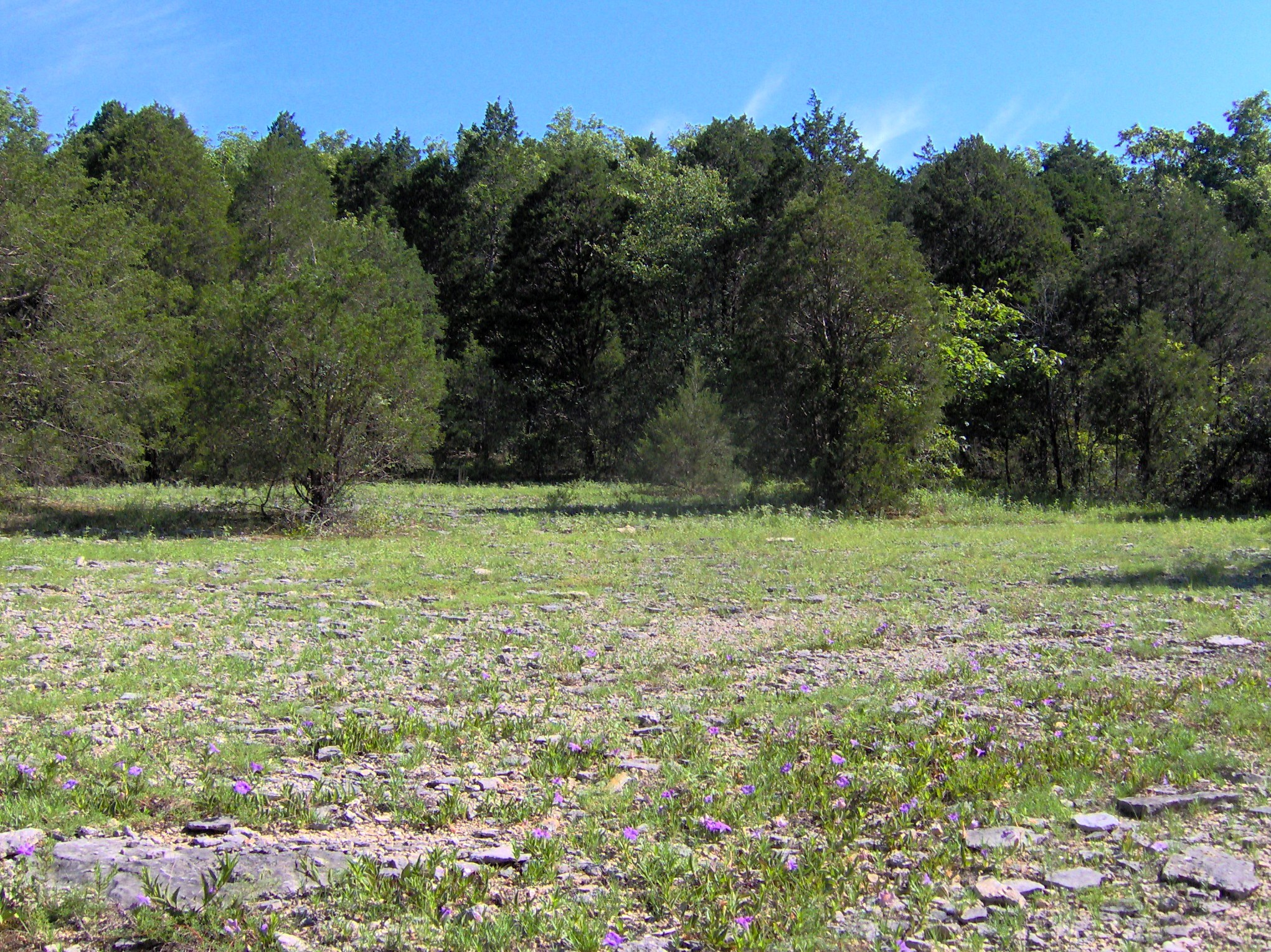 A cedar glade at Cedars of Lebanon State Park in Wilson County, Tennessee, in the southeastern United States. This particular glade is located along the Cedar Glades Trail, near the visitor center.